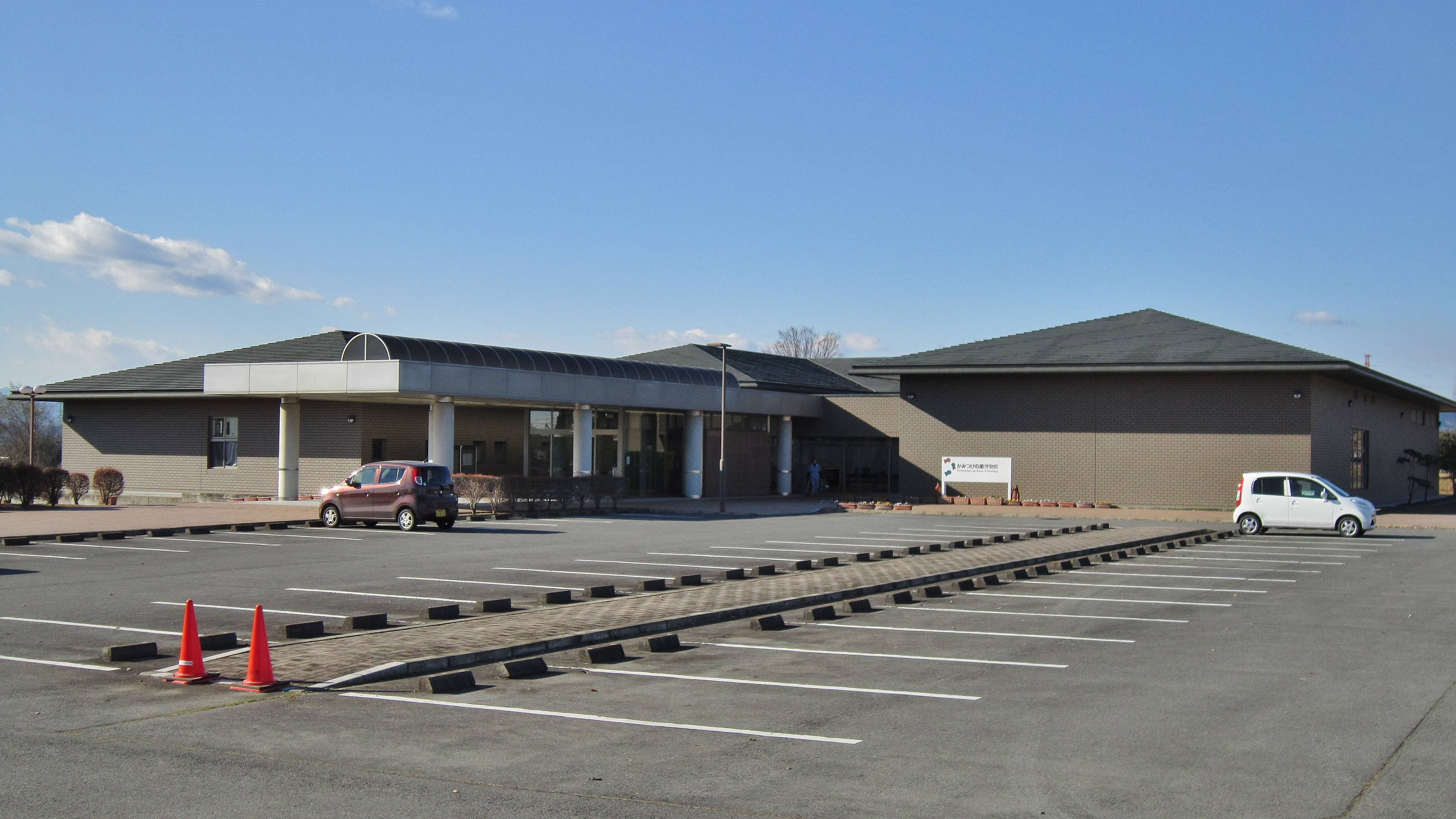 Kamitsukeno-sato Museum of Archaeology (Takasaki, Gunma).